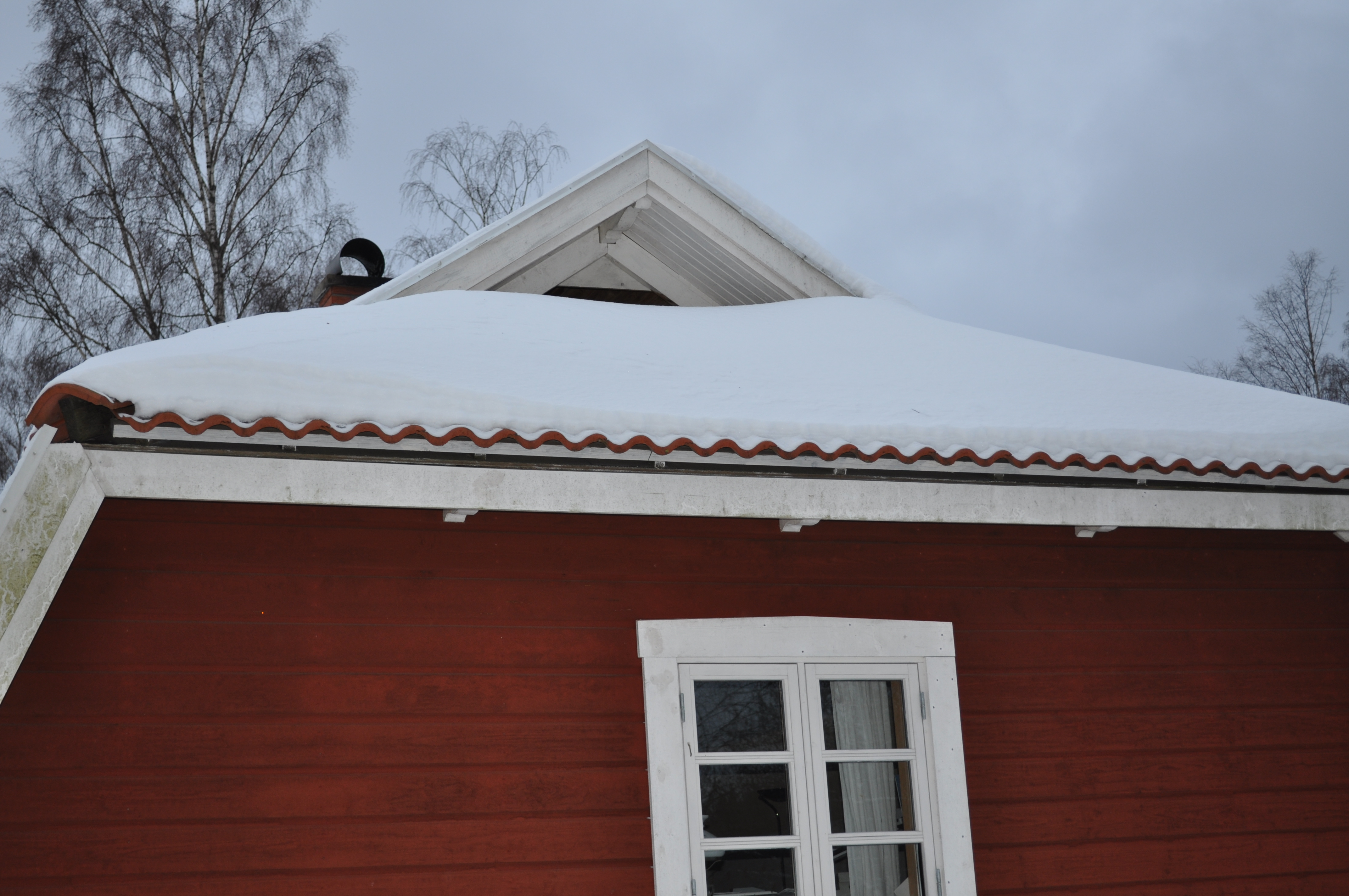 Vindöga windauga (Windauge), windows.